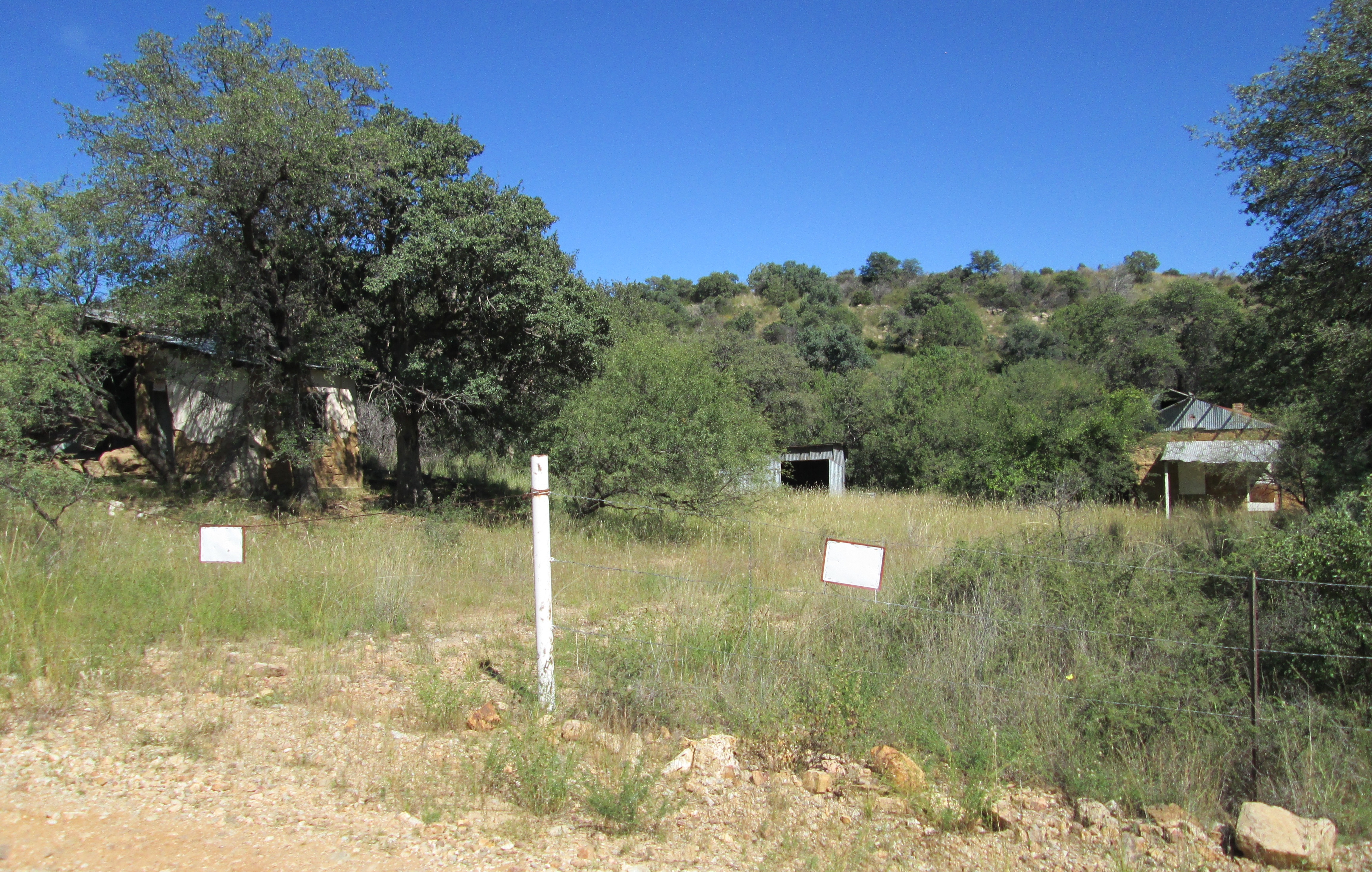 Adobe ruins in Duquesne, Arizona, including what is believed to have been the assay office at left, a shed in the center and a commercial building at the right.